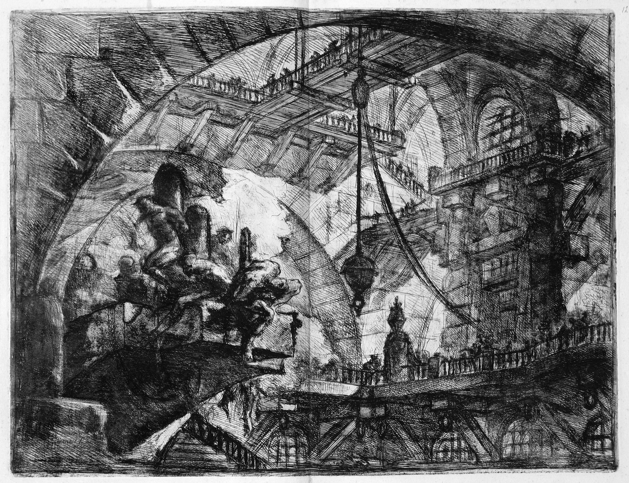 8th plate in the first edition of Le Carceri d'Invenzione (plates II and V aren't printed in the first edition)